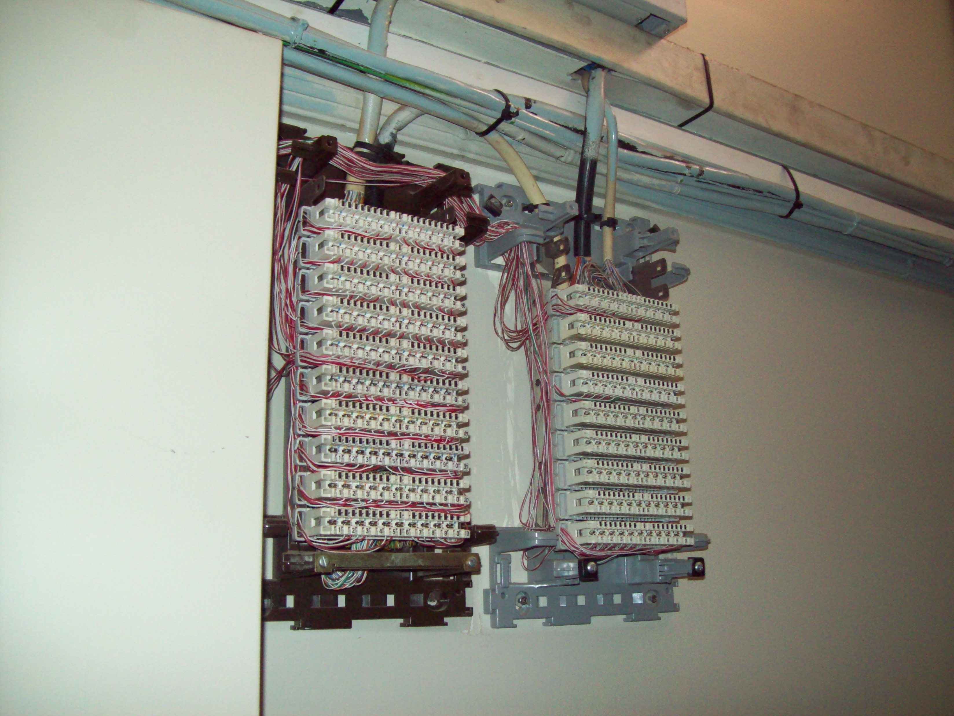 Telephone wiring, Australia